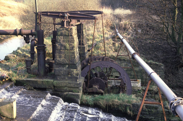 Water powered beam pump, Mount Sion Amazing device that is now even more ruinous and overgrown. Access is now impossible from this angle and the area is dangerous with the Irwell and deep ponds nearby.